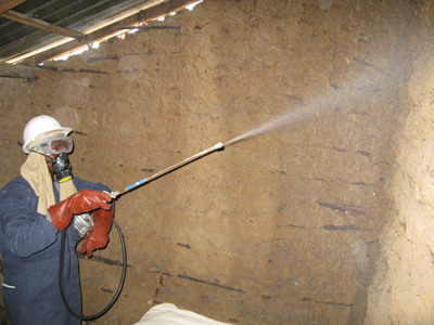 Indoor Residual Spraying (IRS) of insecticides in a dwelling in Mozambique.